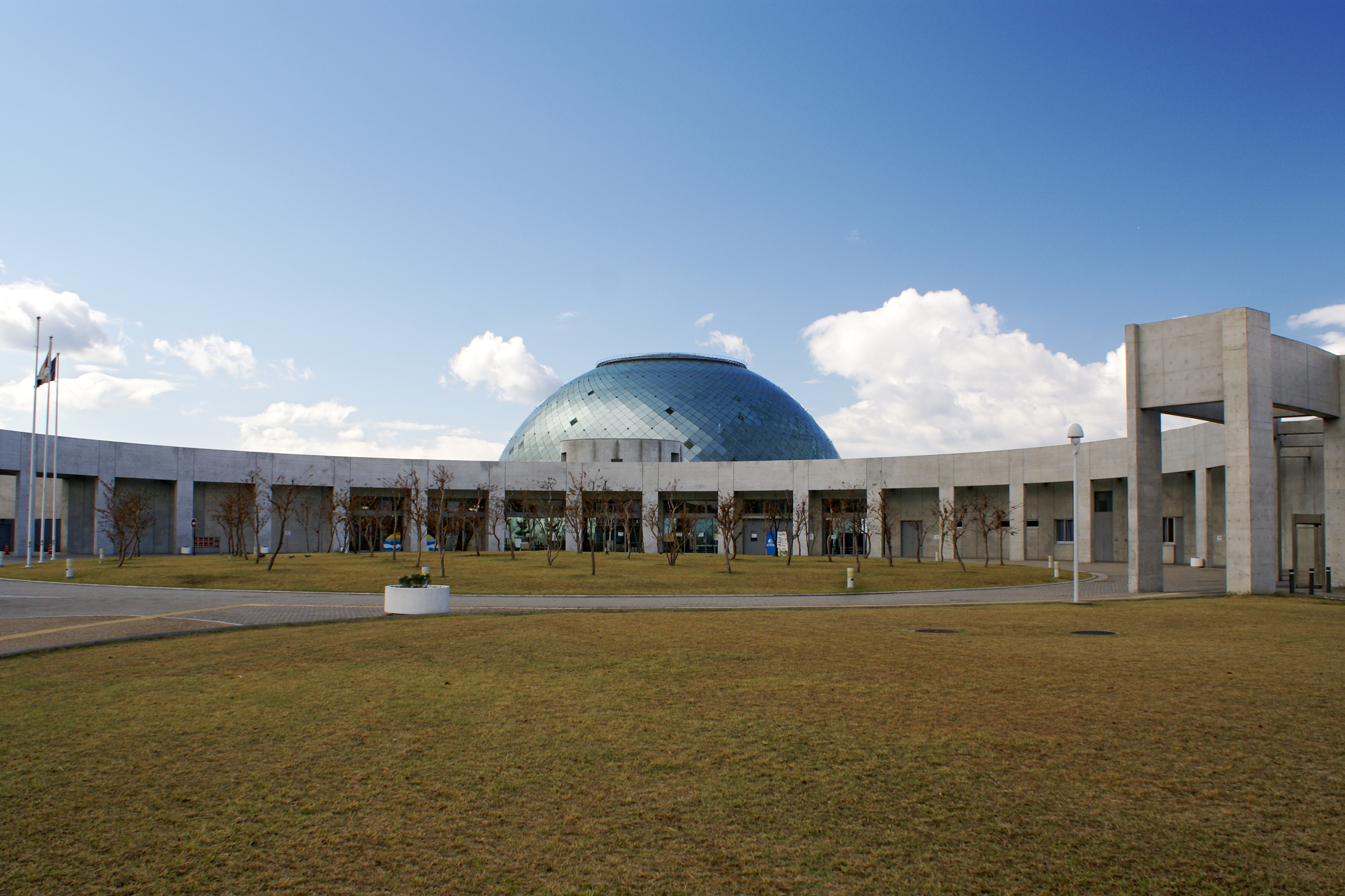 Osaka Maritime Museum in Osaka, Osaka prefecture, Japan